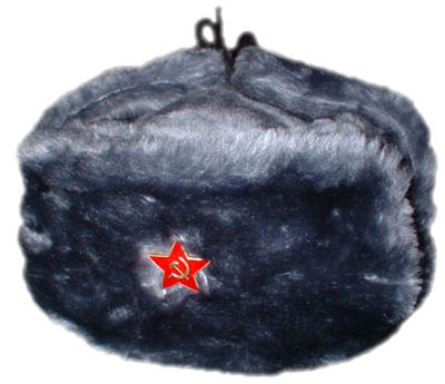 Russian military cap (synthetic fur), design ushanka